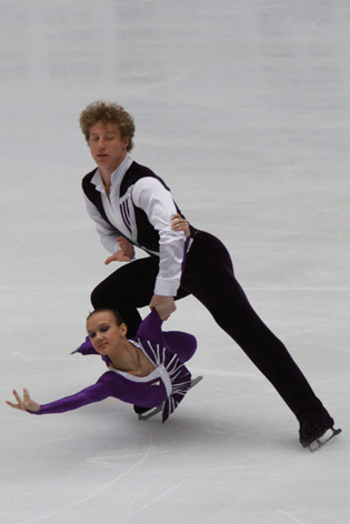 Lubov Iliushechkina and Nodari Maisuradze at the 2009 Cup of China.